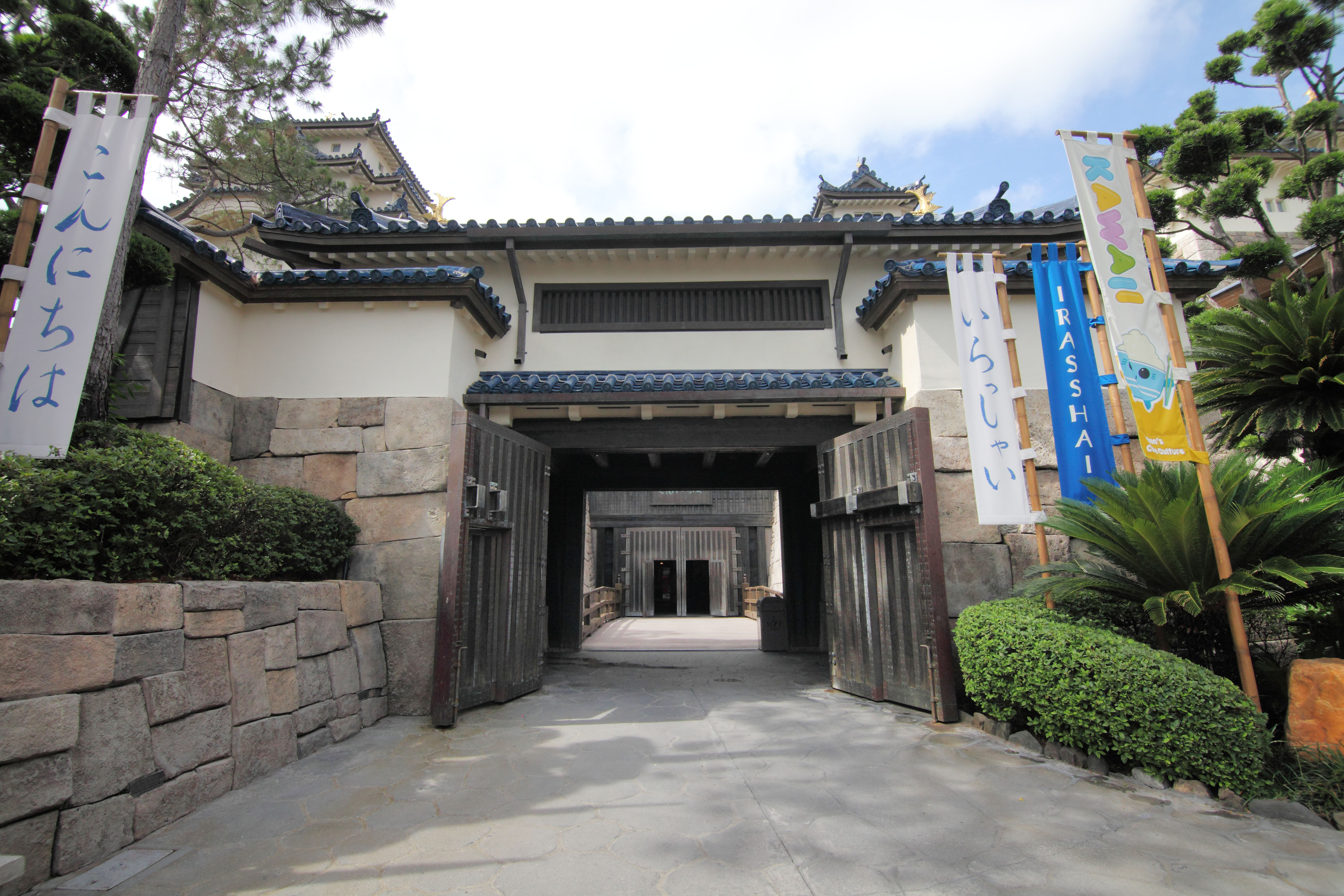 Japan Pavilion in World Showcase at EPCOT Center.